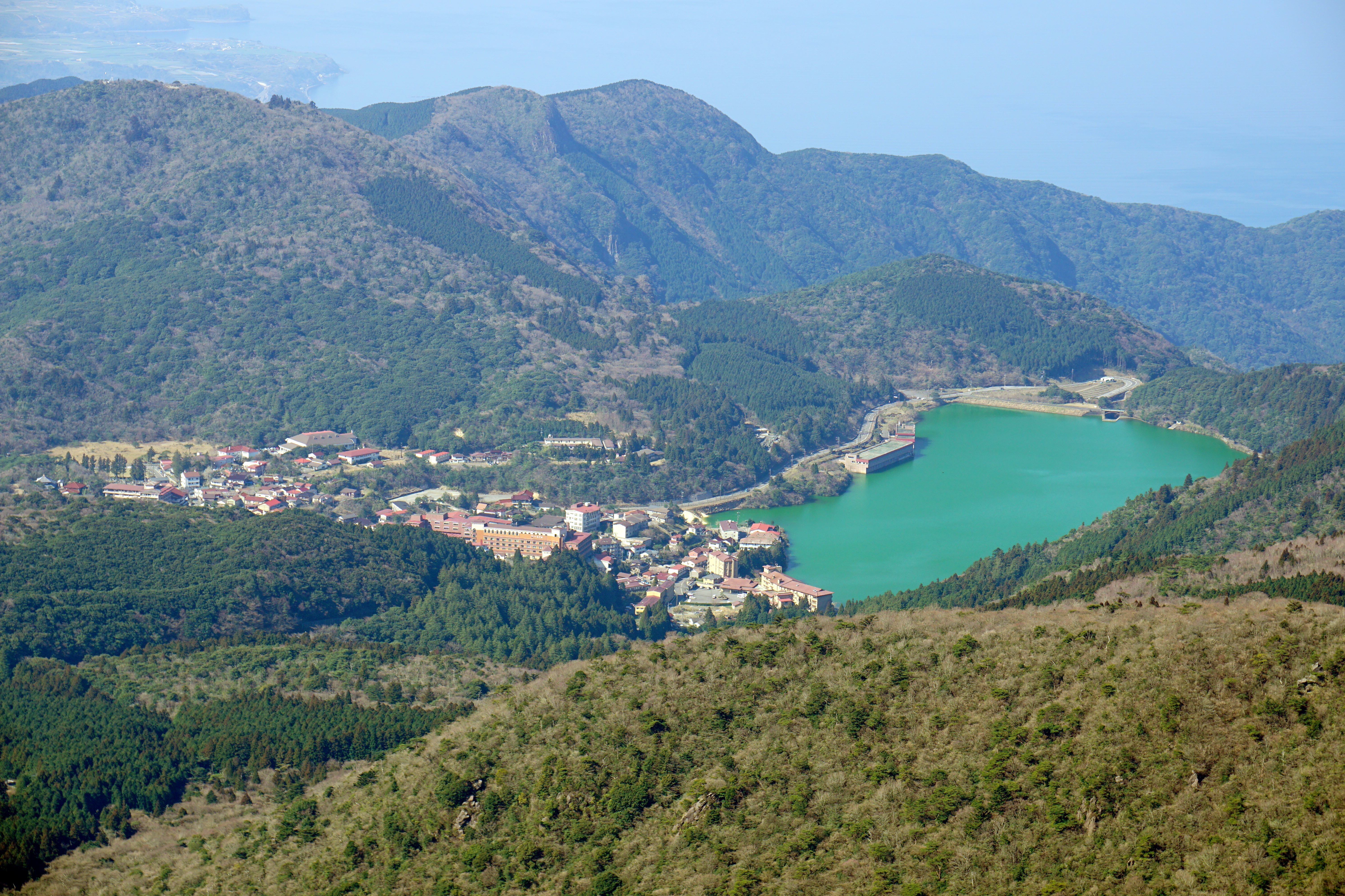 Unzen Onsen town view from Mount Myoken-dake part of Unzen volcanic complex at Unzen City, Nagasaki prefecture, Japan.